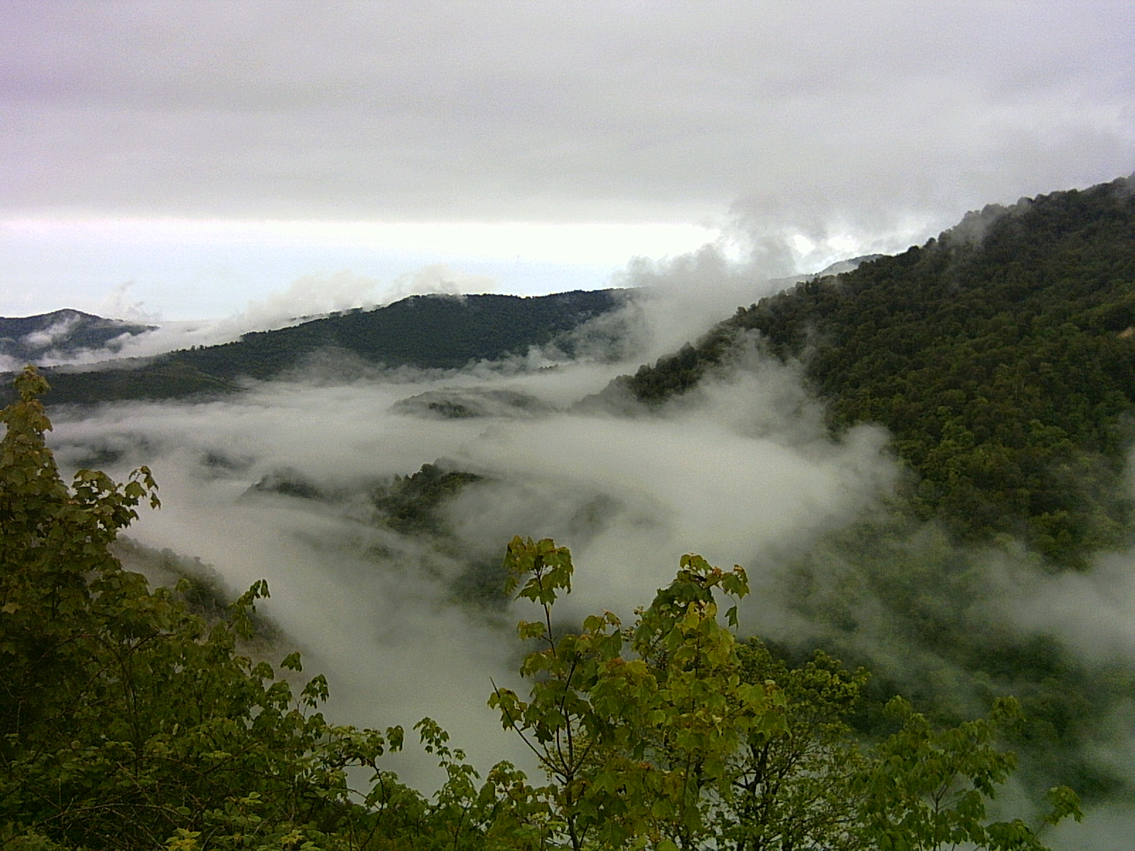 Baladeh - Royan road & Caspian Sea 10